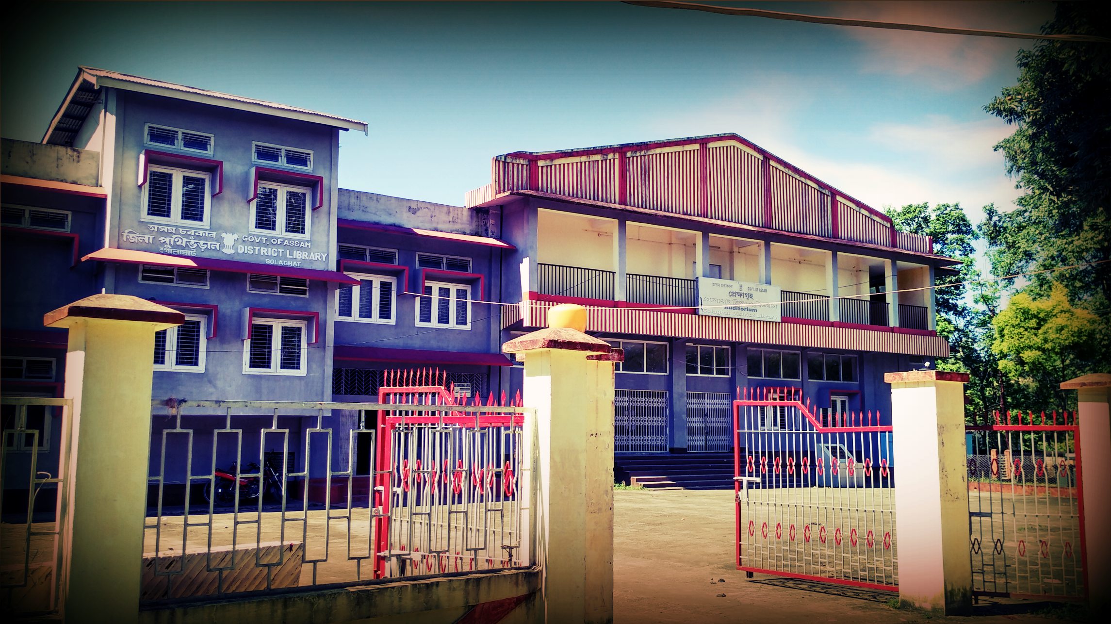 Golaghat District Library অসমীয়া: Golaghat District Library